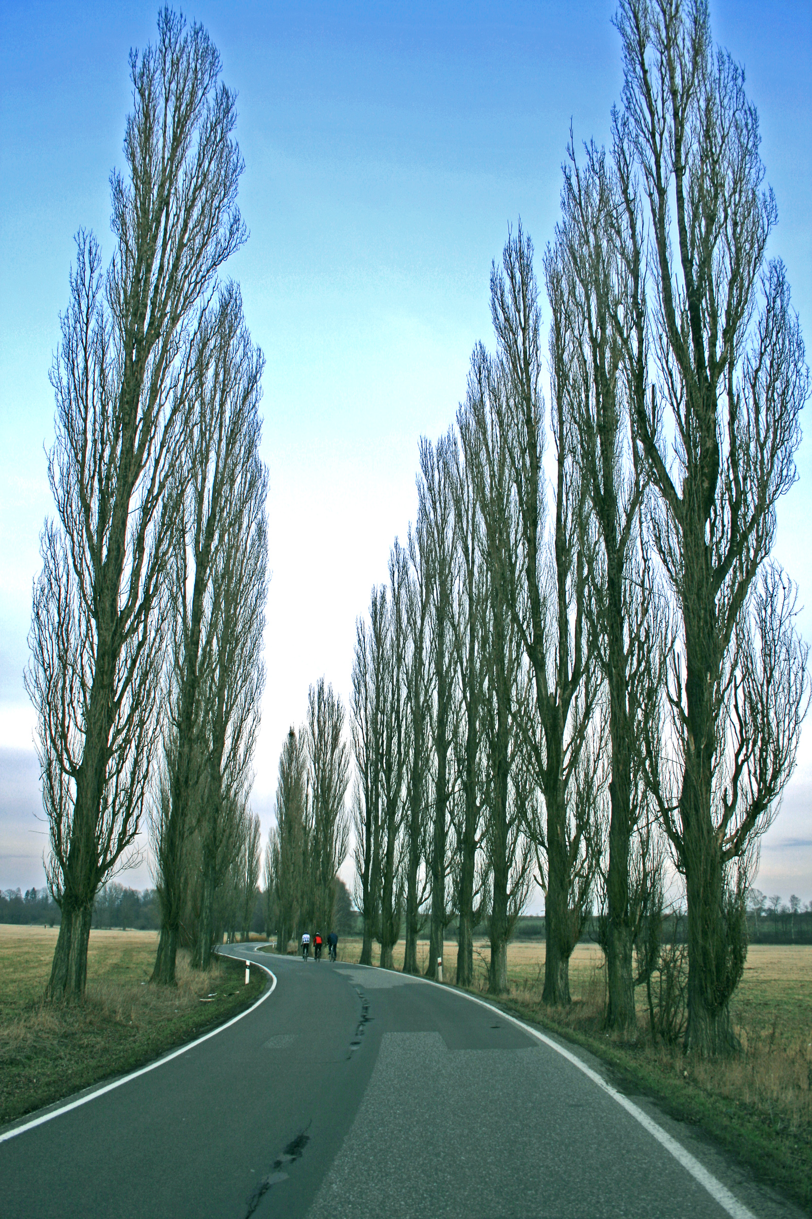 Avenue of poplars on the way from Jaroměř to Rychnovek, east Bohemia